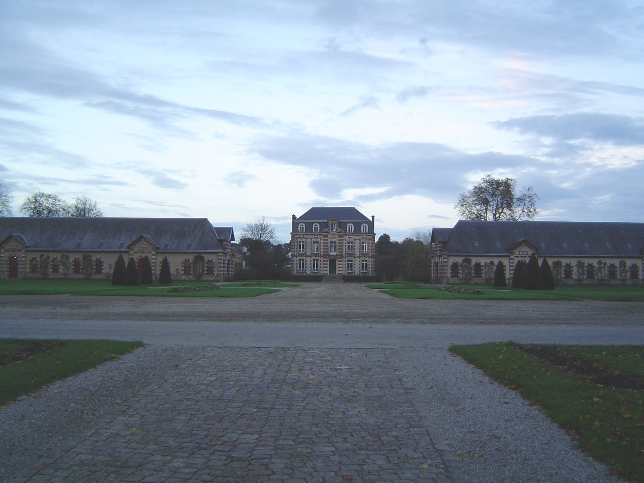 The Haras National of Saint-Lô.